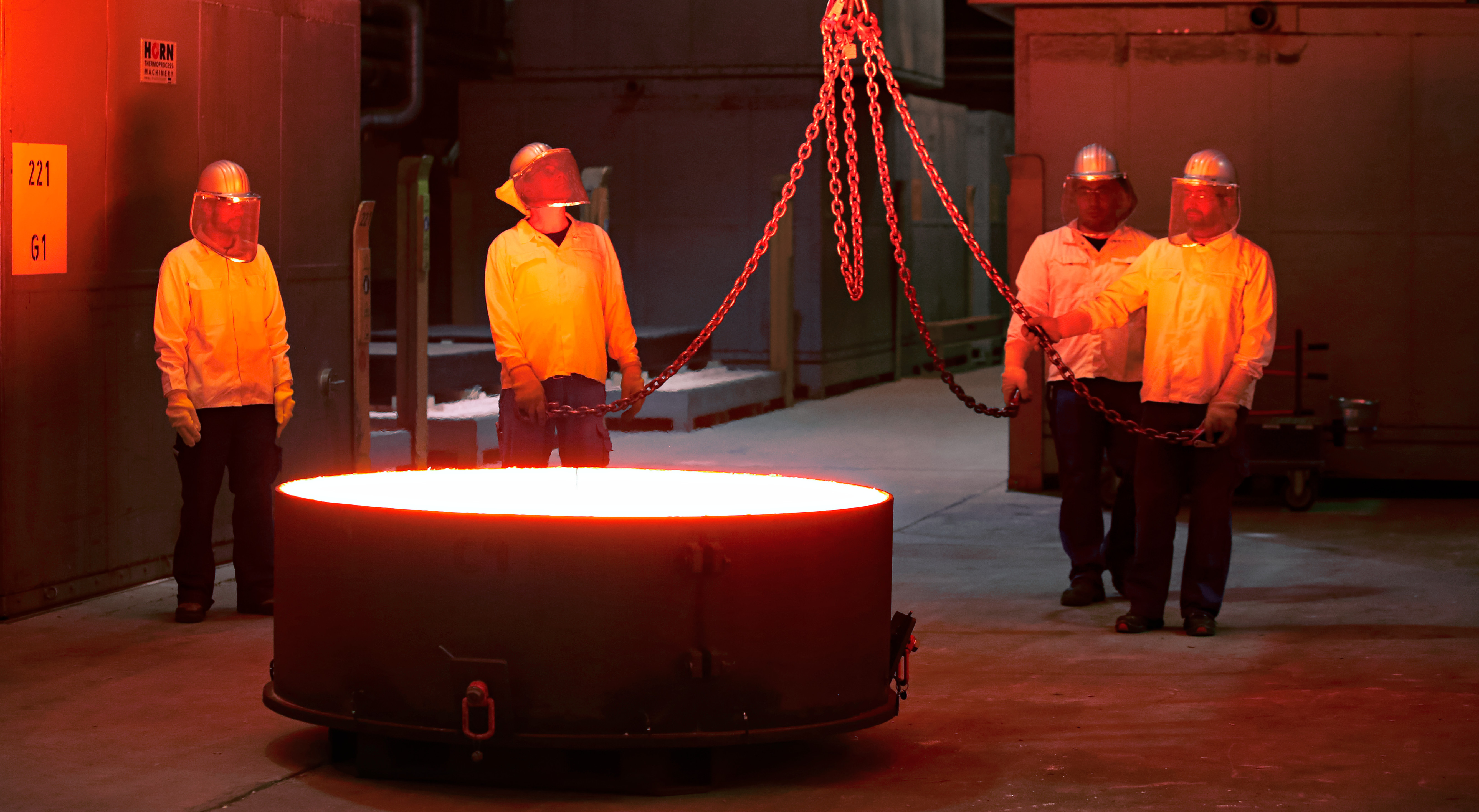 The first hexagonal segments for the main mirror of ESO’s Extremely Large Telescope (ELT) are shown being successfully cast by the German company SCHOTT at their facility in Mainz. These segments will form parts of the ELT’s 39-metre main mirror, which will have 798 segments in total when completed. The ELT will be the largest optical telescope in the world when it sees first light in 2024.